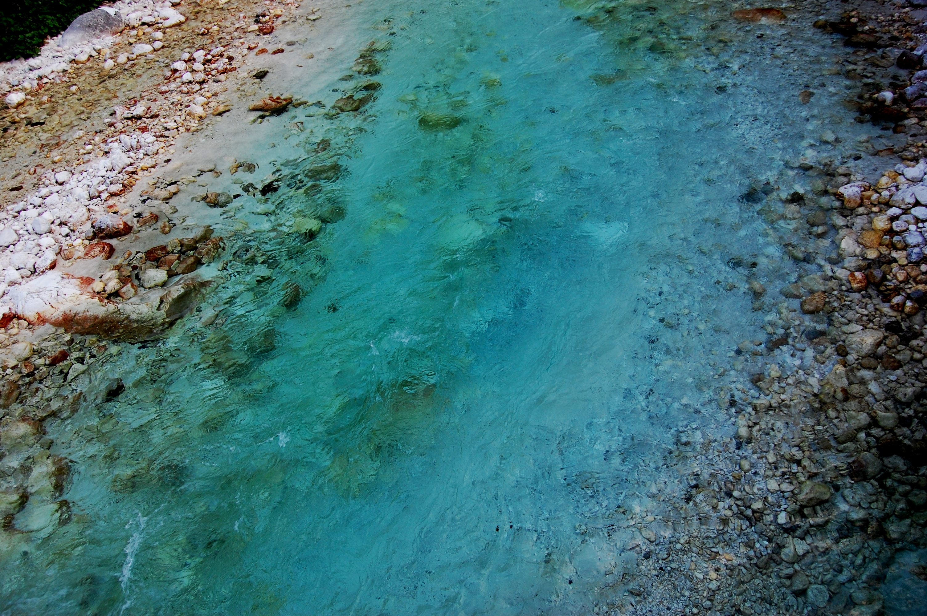 Soca River, Slovenia